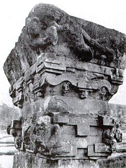 The right tower of the gate at the tomb of the Prefect of Pingyang, in Mianyang, Sichuan. Fight of feline creatures.